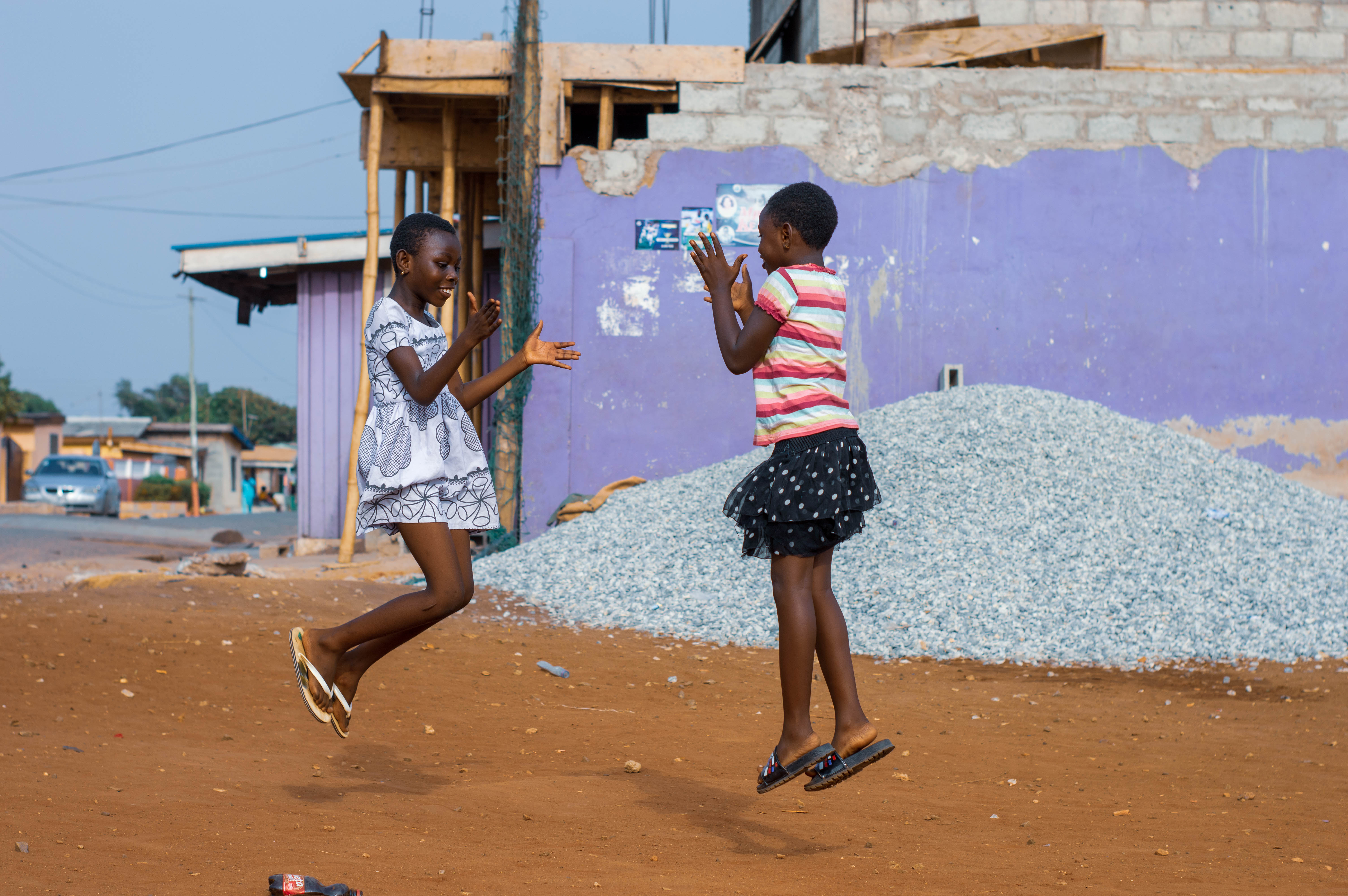 Ampe is a Ghanaian game played by school kids. it is played by two or more players. The leader and another player jump up at the same time, clap, and thrust one foot forward when they jump up. If the leader and the other player have the same foot forward the leader wins a point. if the opposite happens the other player wins a point.